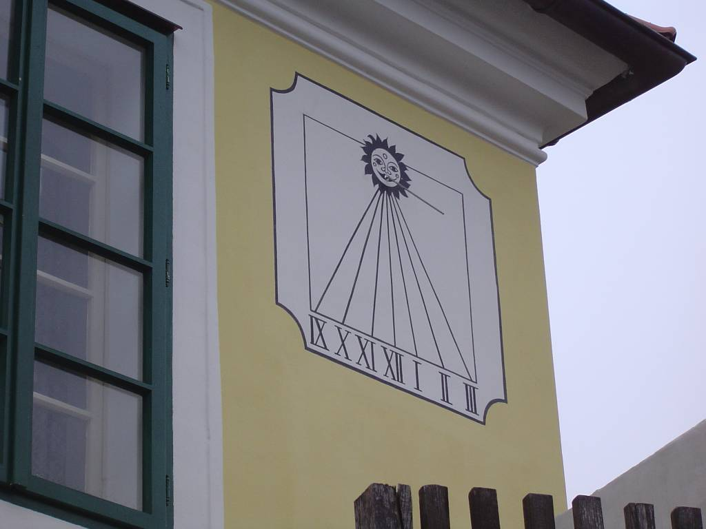 Sundial in open air museum in Přerov nad Labem